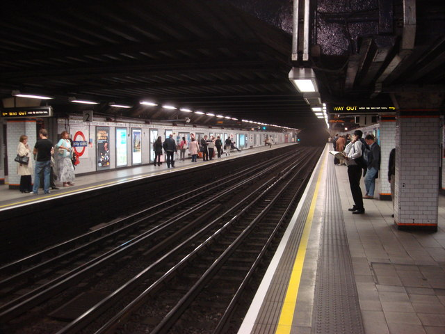 Euston Square tube station, Westbound platform This station was built as Gower Street, changing to its present name in 1909.